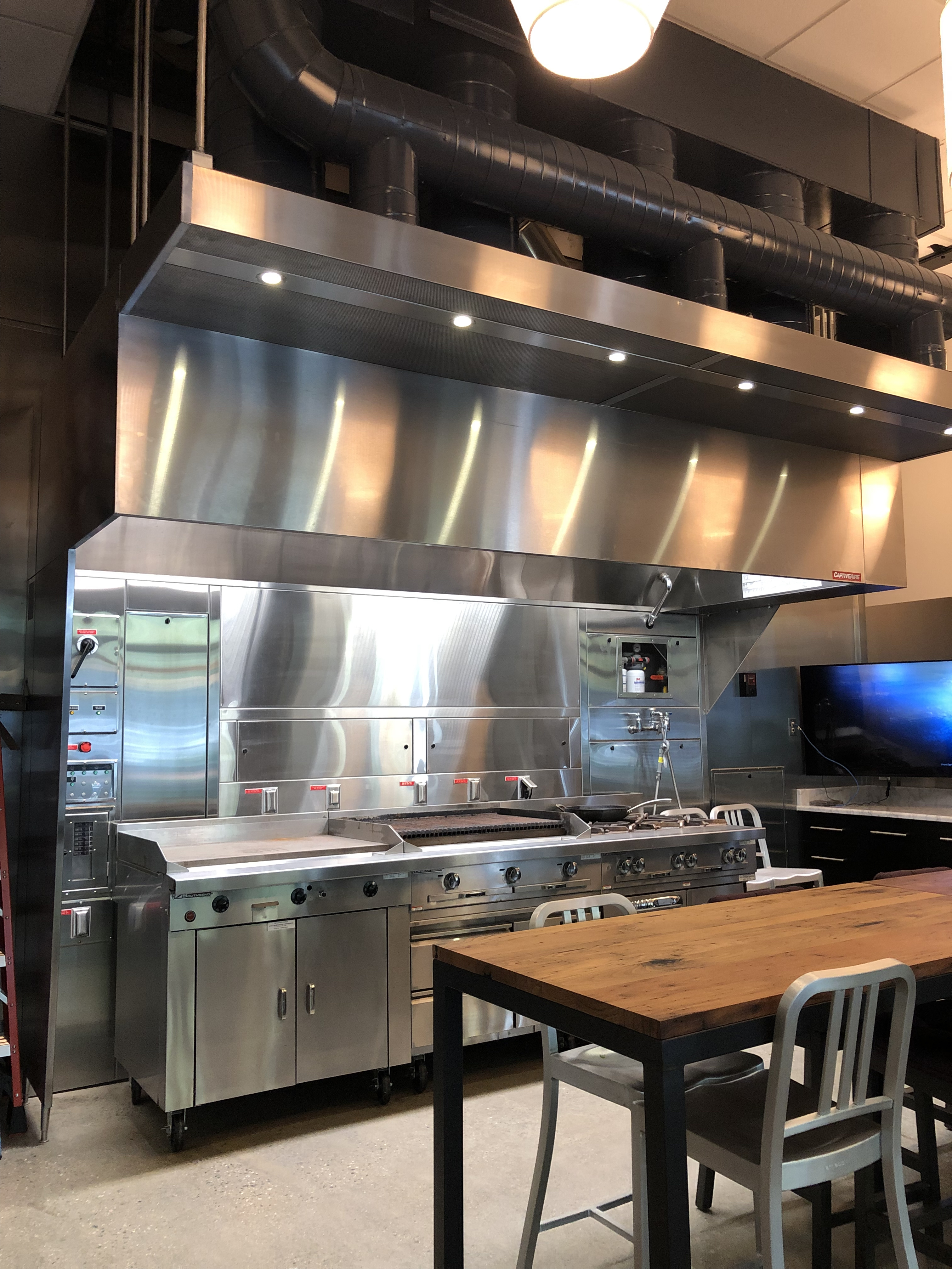 Various products manufactured by CaptiveAire Systems. Utility distribution system (behind griddle and stove), exhaust hood (above stove), makeup air plenum (in front of hood with integrated lights). Stainless steel exhaust duct can be seen behind the painted black makeup air ducts.